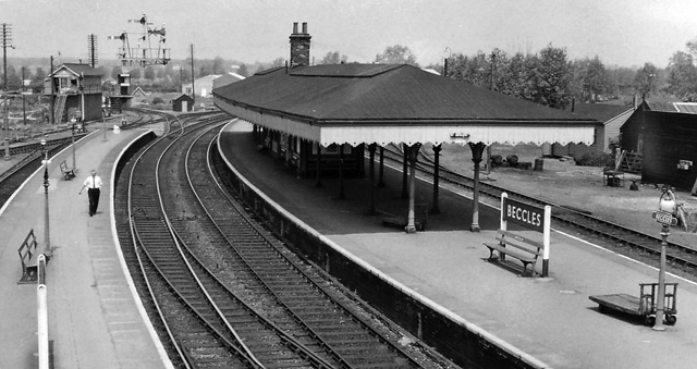 Beccles Station. Northward view, towards Yarmouth (South Town) left, Lowestoft right. London - Ipswich - Yarmouth/Lowestoft secondary main line; until 5/1/53 (goods in stages to 19/4/65) also junction of a branch to Bungay and Tivetshall. The main line to Yarmouth had been closed completely on 2/11/59.